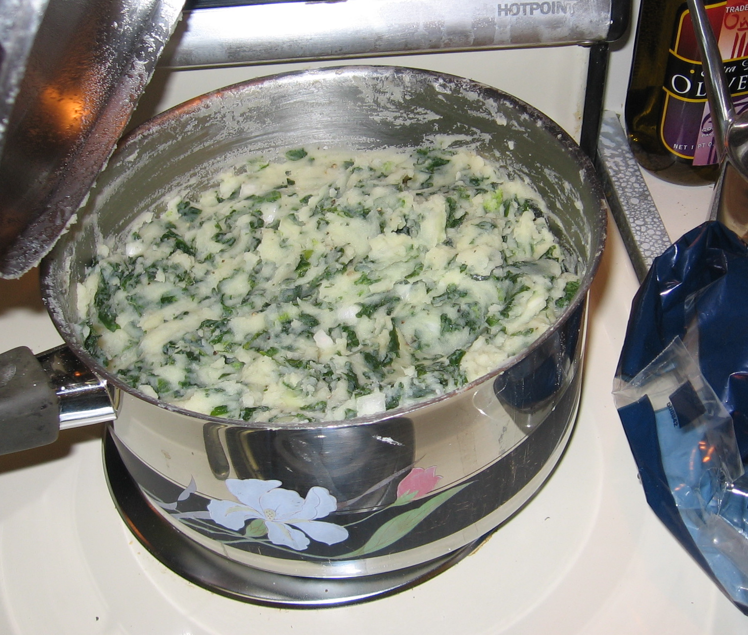 Pot of Colcannon (Irish potato and kale dish), sitting on the stovetop